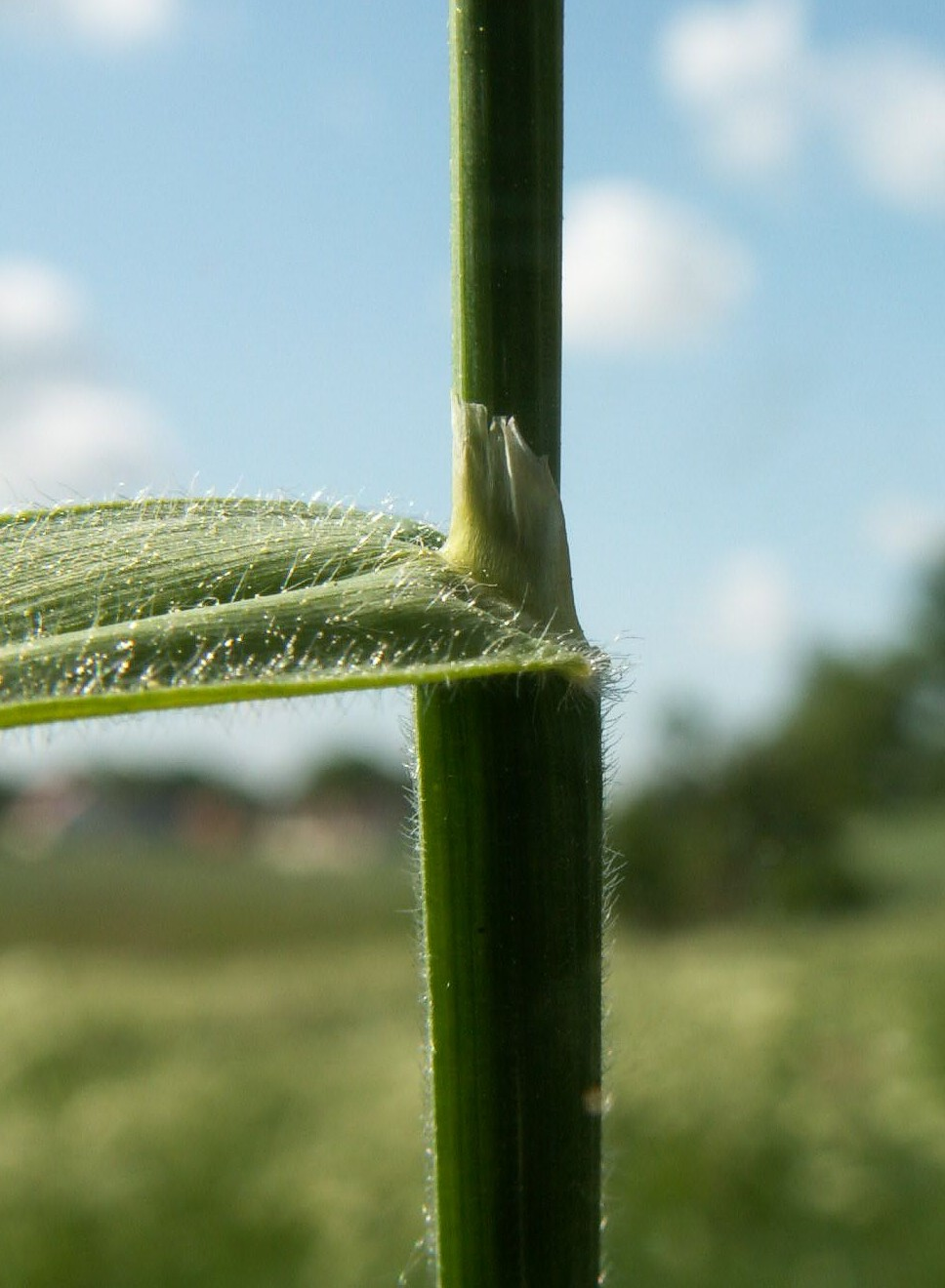 Stipula and leaf of Avenula pubescens. Meadow in Buk near Szczecin, NW Poland.